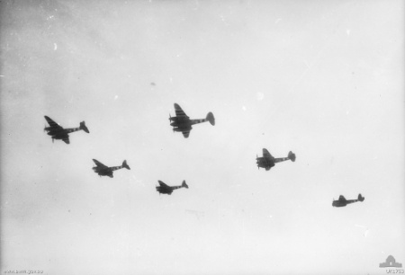 Australian War Memorial (AWM) catalog number UK1753. Australian Mosquito bombers from No. 464 Squadron RAAF setting out on a mission over France in August 1944